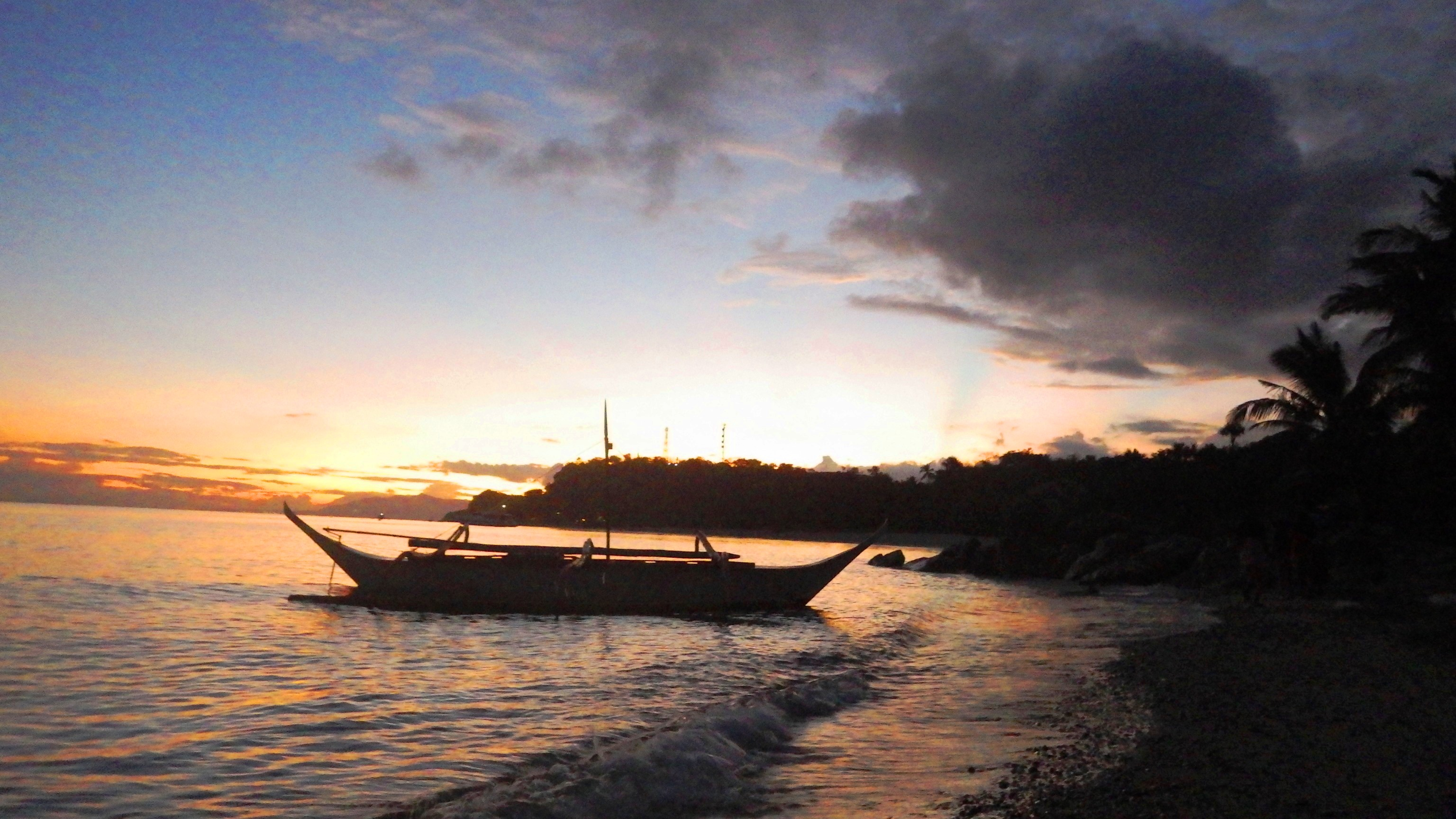 Talipanan Beach, Puerto Galera, Mindoro